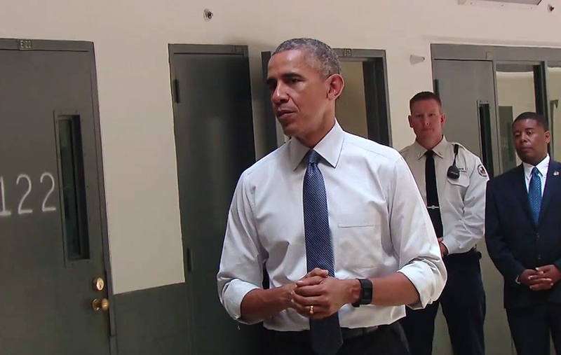 President Barack Obama visiting the El Reno Federal Correctional Institution.